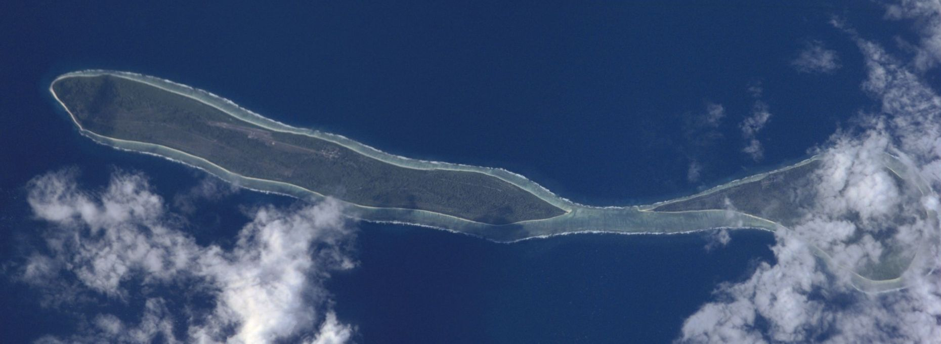 Agalega Islands from the International Space Station.